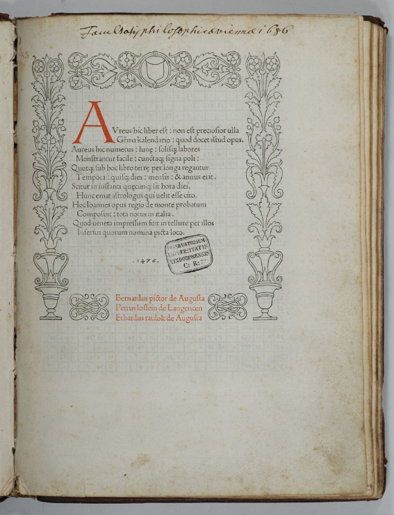 First page from Kalenarius by Regiomontan printed by Erhard Ratdolt, Peter Loeslein and Bernhart Maler in 1476. Copy of the Wien University Library.